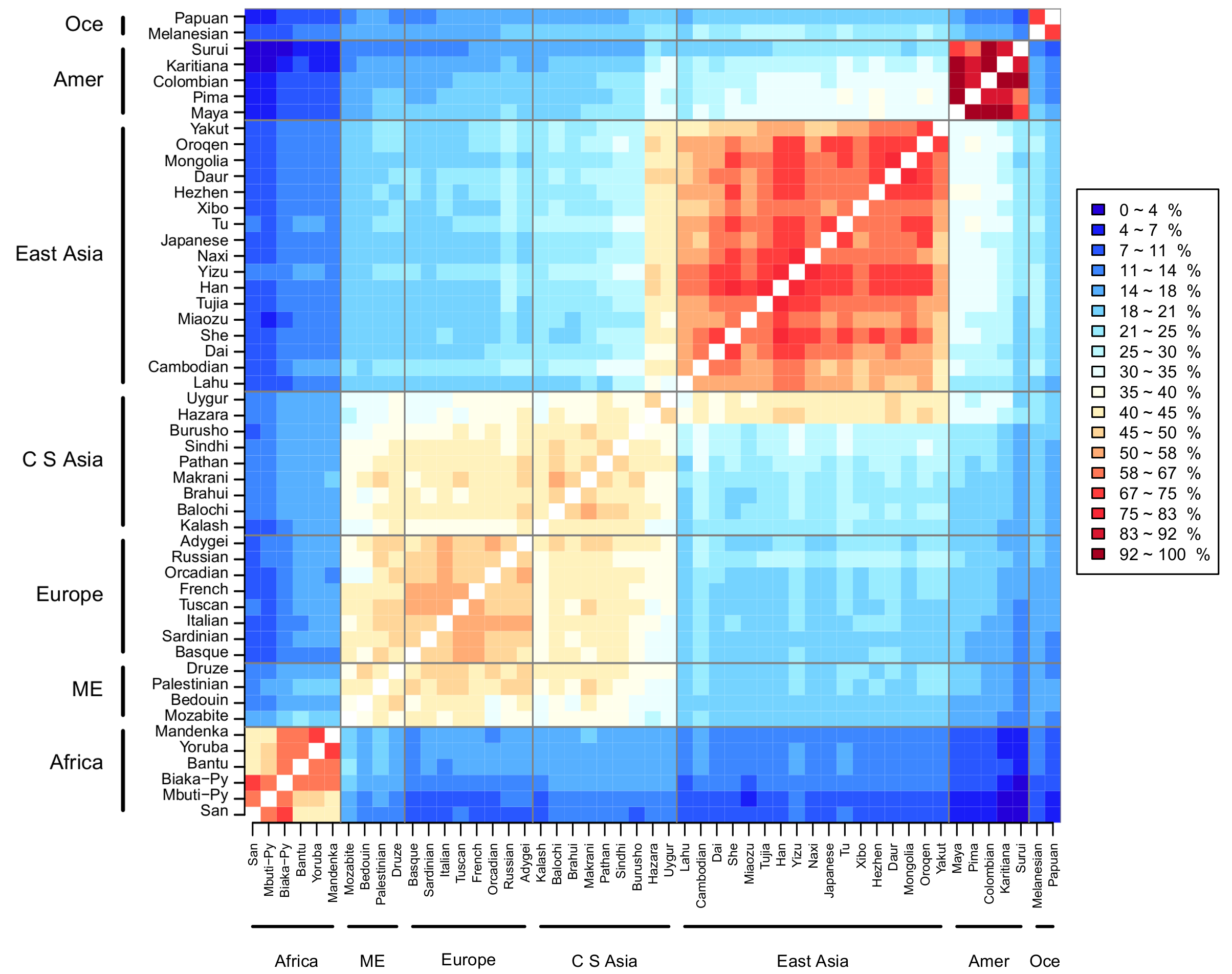 Genetic similarities between 51 worldwide human populations, calculated by Euclidean genetic distance using 289,160 SNPs. Each reference is the individual which is the best representative of the HGDP (Human Genome Diversity Project) population. The pair-wise combinations between the 51 references are plotted. The data is normalized so that 100 is given to the most similar pair (plotted in dark red) and 0 is given to the most distant pair (plotted in blue). Vertical and horizontal lines separate the references into large continental groups: sub-Saharan Africa, North-Africa/Middle East, Europe, Central South Asia, East Asia and Oceania. Five large blocks of similarity are visible: sub-Saharan Africa North-Africa/Middle East, Europe and Central-South Asia, East Asia Americas Oceania The biggest block is composed of NA/ME, Europe, and CSA corresponding to the Indo-european continental group; within this large block the European references show the greatest similarity. The references within the Americas show the highest intra-block similarity, particularly the pairs Colombia/Maya and Colombia/Karitiana (an indigenous population living in Amazônia). The blocks with the least similarity to one another are Africa/Oceania, and Africa/Americas. The Mbuti Pygmies and the San show the largest distances to the other references.